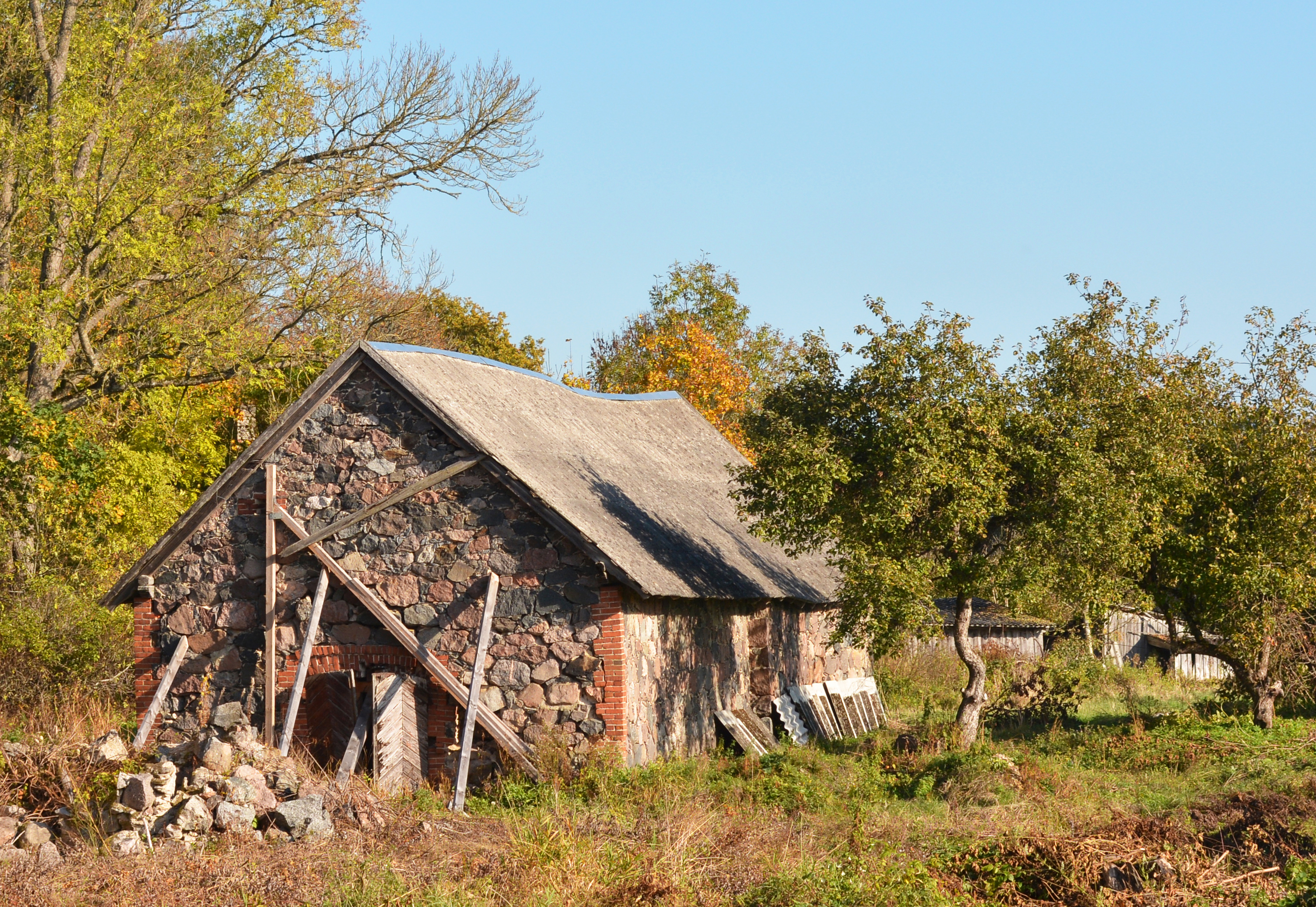 Hõreda manor, distillers warehouse.